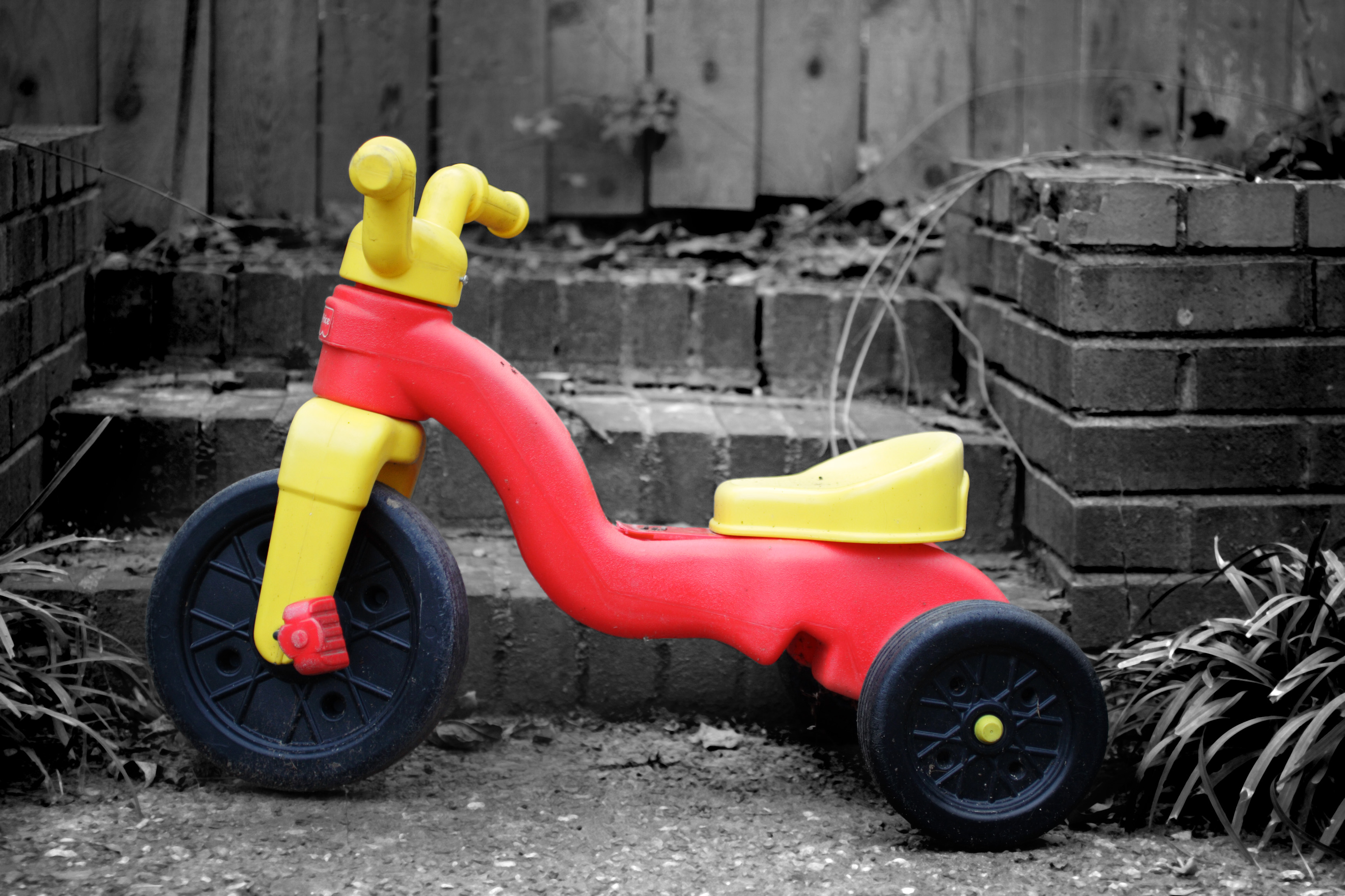 Tricycle This is a retouched picture, which means that it has been digitally altered from its original version. Modifications: selective desaturation and contrast adjustments.